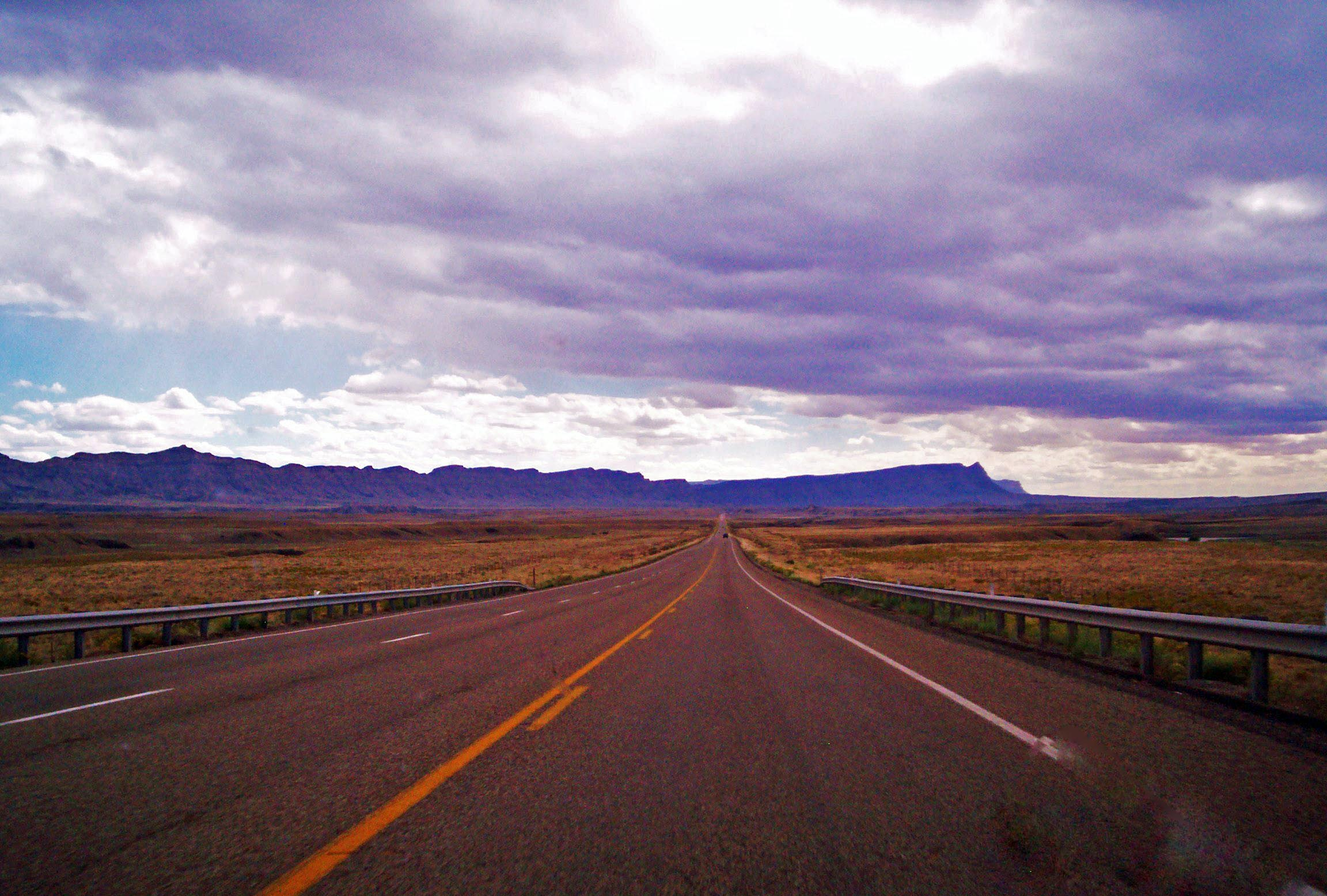 U.S. Highway 6 Emery County, Utah 2007 by David Jolley.